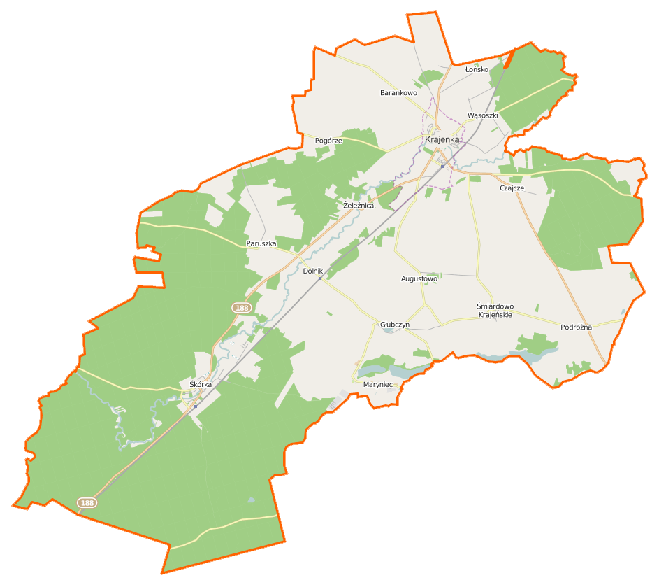 Map of Gmina Krajenka, Poland This map of Krajenka (gmina) was created from OpenStreetMap project data, collected by the community. This map may be incomplete, and may contain errors. Don't rely solely on it for navigation.